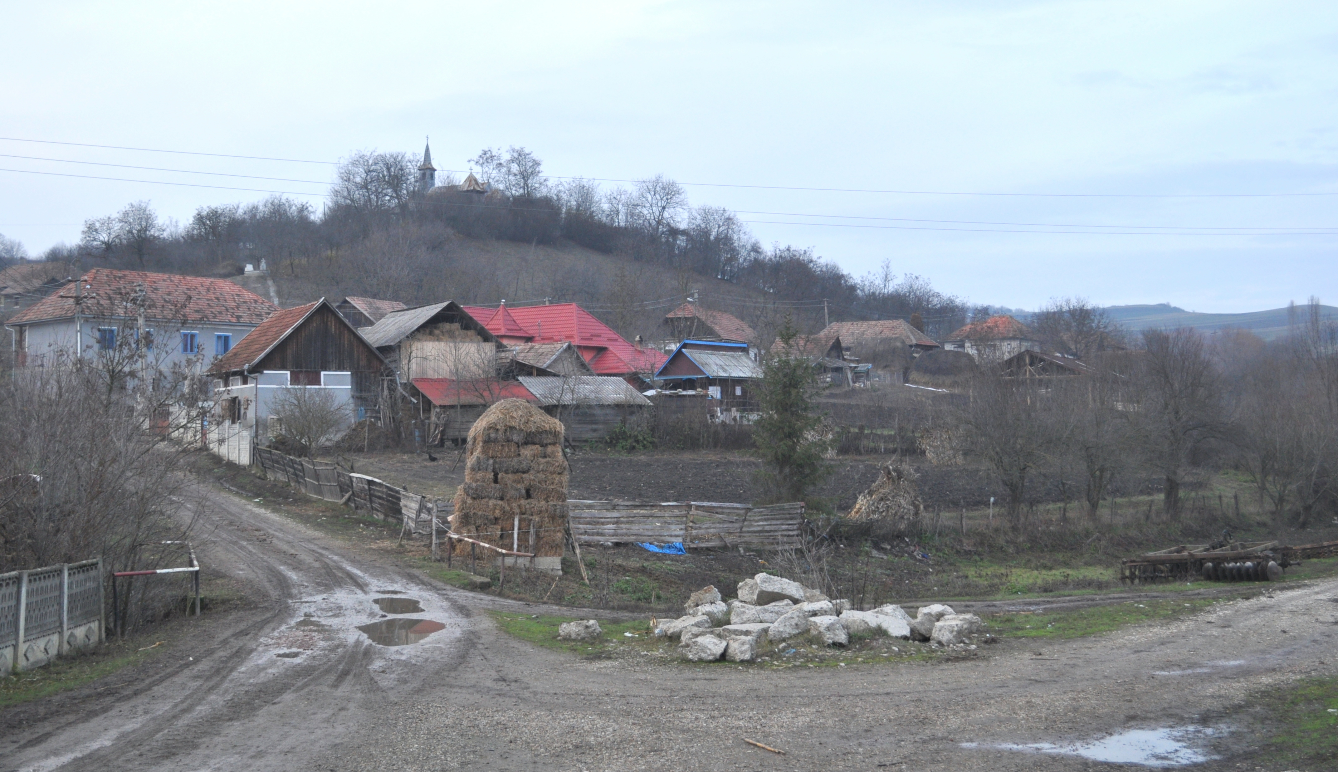 Wooden church in Bărăi, Cluj county, Romania